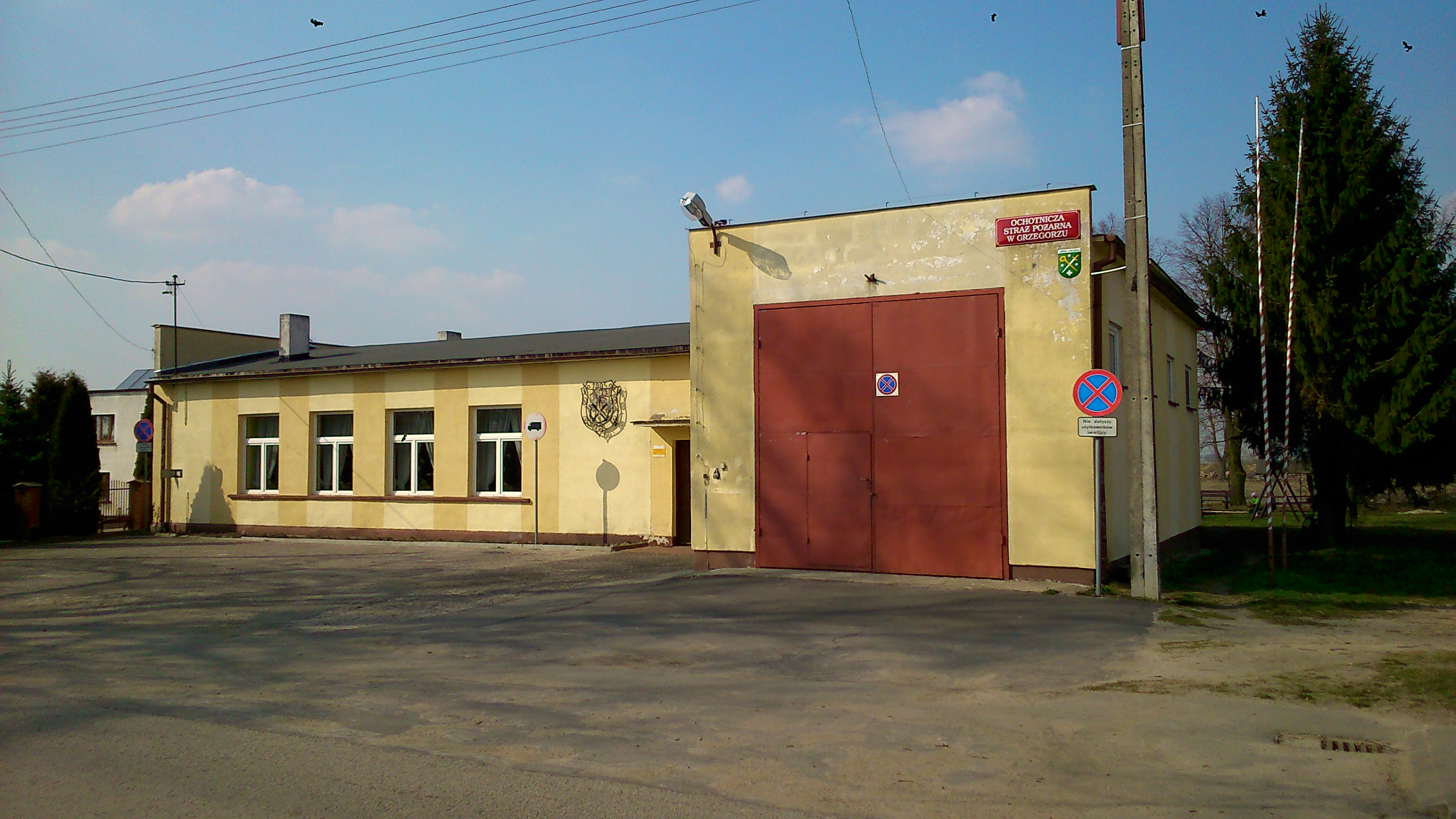 Grzegorz - village in Kuyavian-Pomeranian Voivodeship, Poland. Fire Station of local Volunteer Fire Squad